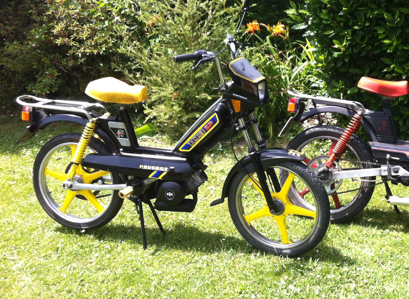 Peugeot 103 SP2 year 1988 restauration as new, only pedals have been removed and replaced in the 80s